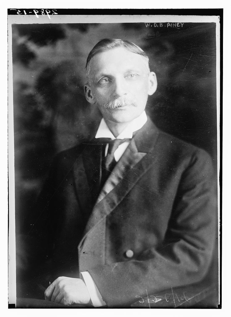 William David Blakeslee Ainey. Bain News Service, publisher. PD-US [between ca. 1910 and ca. 1915] 1 negative : glass ; 5 x 7 in. or smaller. Notes: Title from unverified data provided by the Bain News Service on the negatives or caption cards. Forms part of: George Grantham Bain Collection (Library of Congress). Format: Glass negatives. Repository: Library of Congress, Prints and Photographs Division, Washington, D.C. 20540 USA, General information about the Bain Collection is available at Persistent URL: Call Number: LC-B2- 2989-15